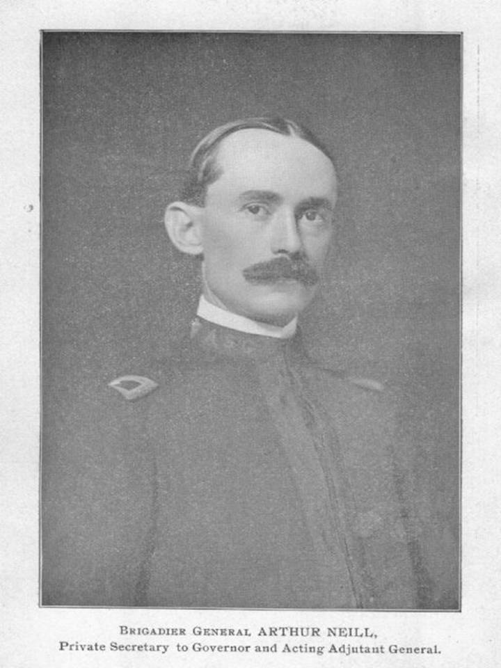 Brigadier General Authur Neill was the Private Secretary to the Govenor and Acting Adjutant General of Arkansas during the Spanish American War.